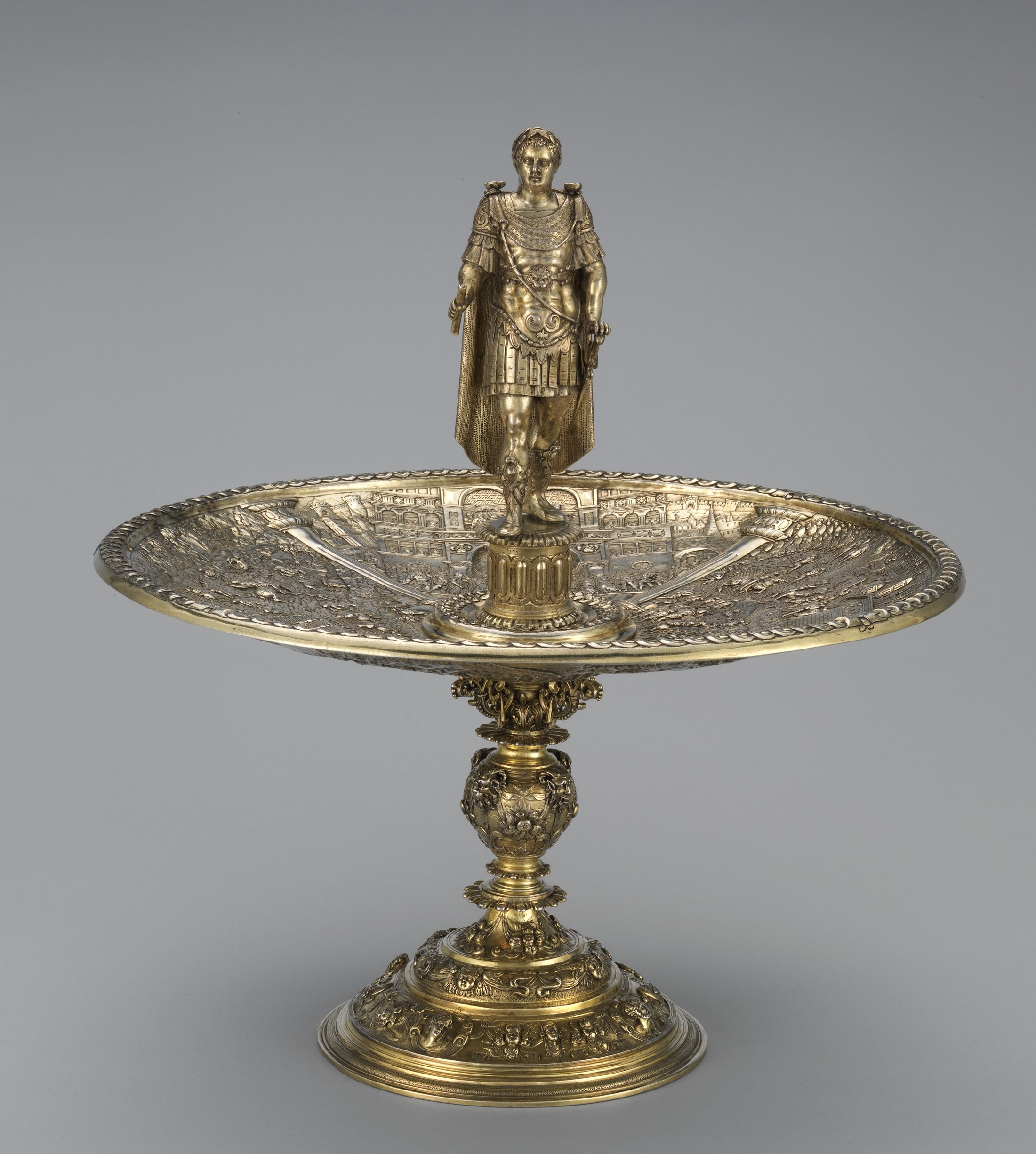 Netherlandish?; ; Metalwork-Silver In Combination